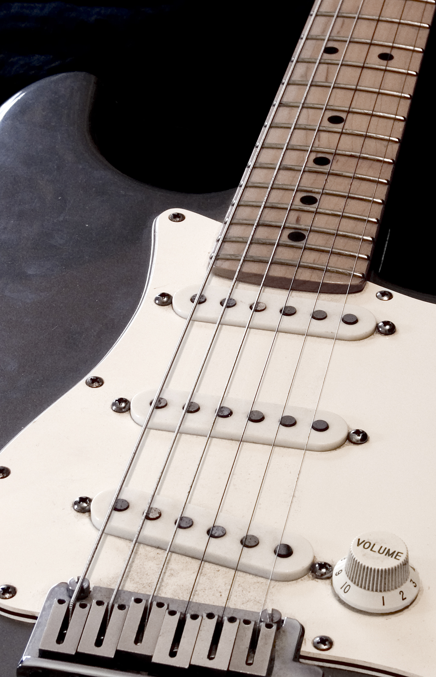 Stratocaster closeup